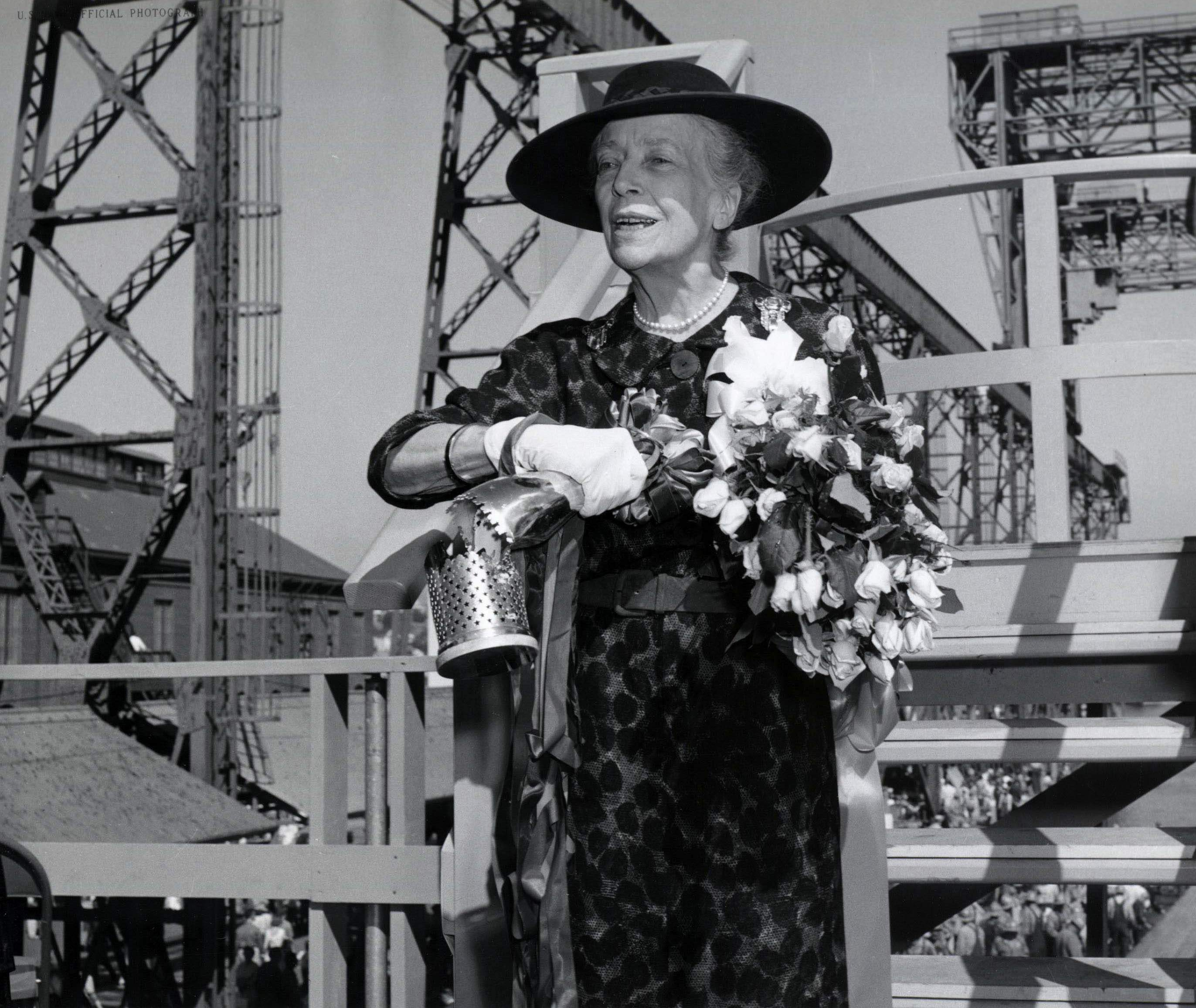 Alice Roosevelt Longworth, daughter of US President, Theodore Roosevelt, after launching the USS Theodore Roosevelt (SSBN-600) at Mare Island on October 3, 1959. The shipyard's newspaper described the story of this picture. "She didn't do it, but she was supposed to -- break the champagne bottle on the bow of the Theodore Roosevelt, first Polaris submarine built on the West Coast, and launched at Mare Island on October 3, 1959. Mrs. Alice Roosevelt Longworth, daughter of the late President for whom the ship was named, was the sponsor. She was also the first, and last, Mare Island sponsor who declined a dress rehearsal for the launching ceremony. She missed the ship when she swung the bottle, and in desperation threw the bottle at the ship and missed again. Fortunately, a member of the crew up on the ship pulled the bottle up by the attached cable, and quickly smashed the bottle on the bow before the ship hit the water. He did a fine job as evidence by the broken bottle held by the tearful sponsor." In the photo Alice wears the costly string of pearls given her by the government of Cuba upon her marriage to Nicholas Longworth in 1906.